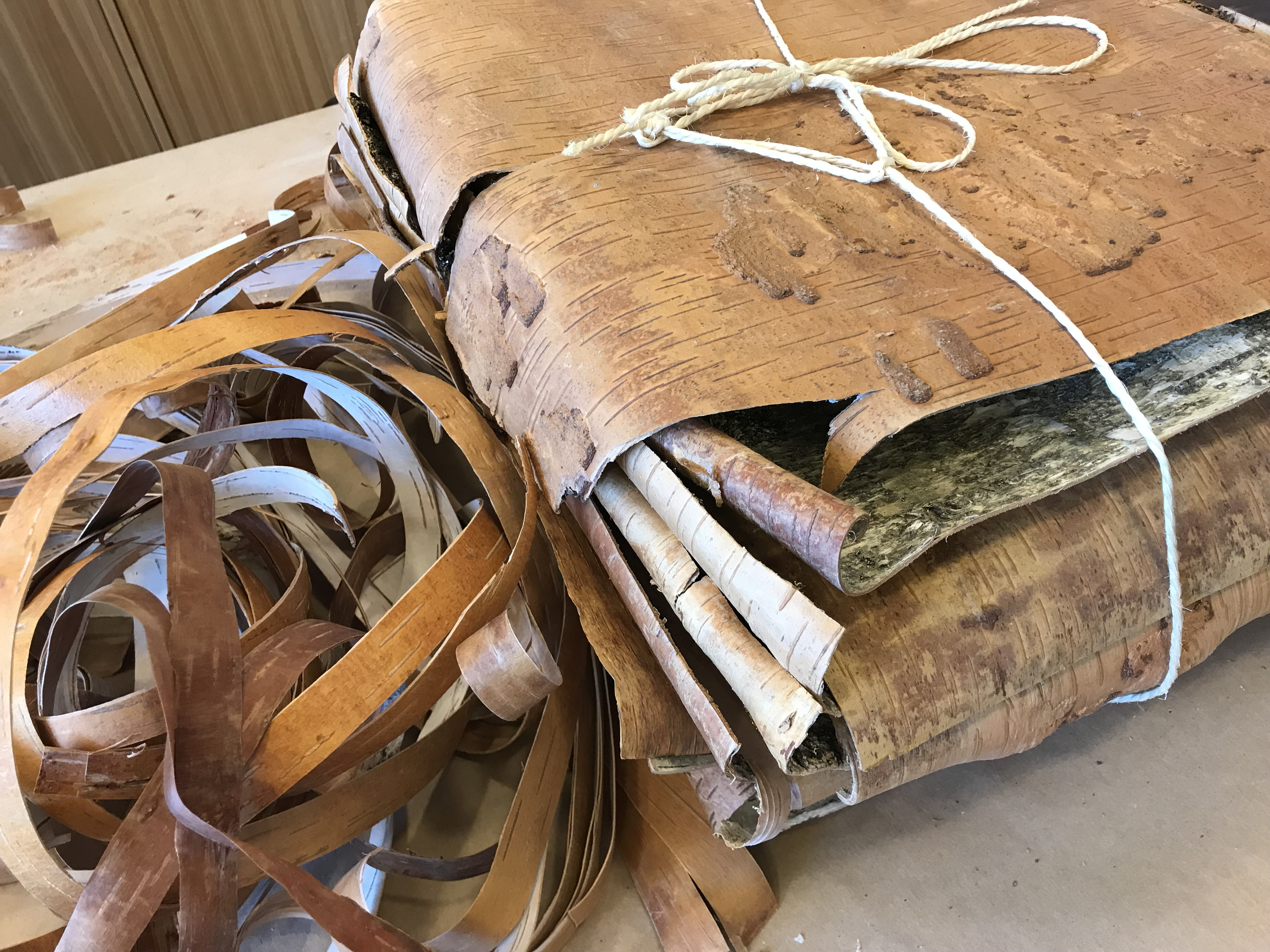 A bunch of birch bark for a workshop at the National Museum of Finland in Helsinki, 24 November 2018